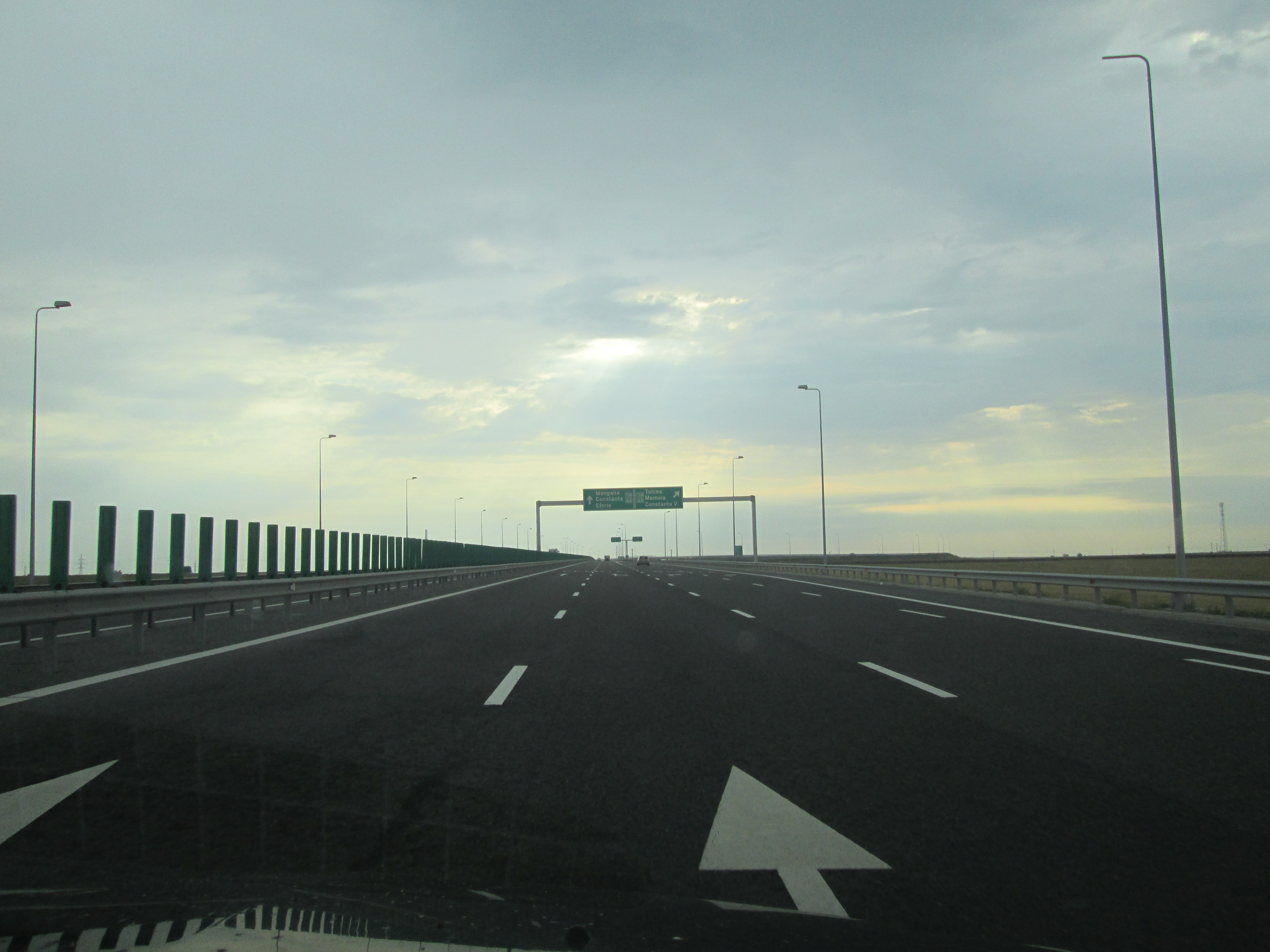 A2 and A4 motorways interchange, west of Constanta